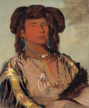 Ha-wón-je-tah, One Horn, Head Chief of the Miniconjou Tribe (1832)